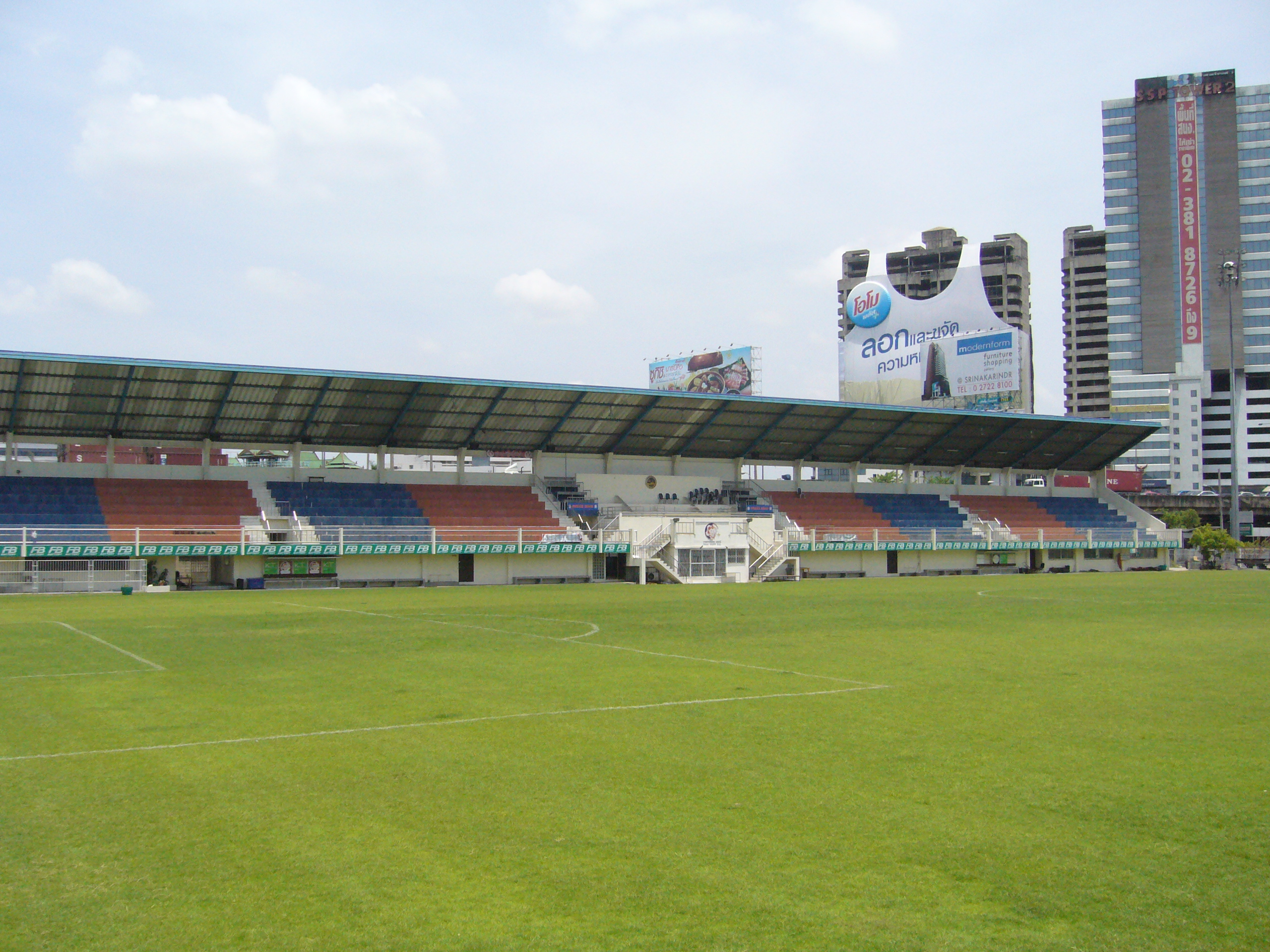 Thai Port Stadium